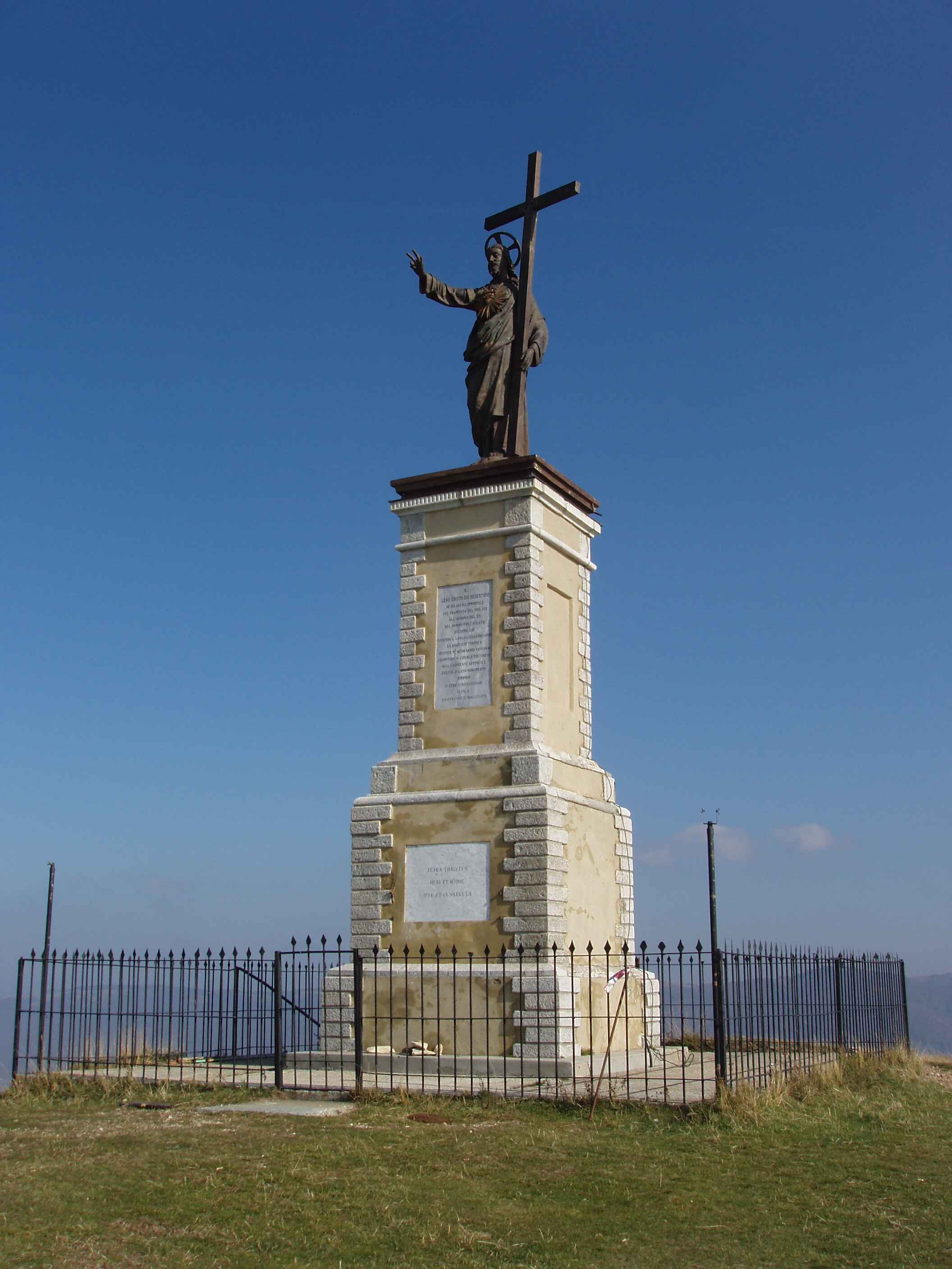 Statue of Crist on the top of Mount Giarolo (Italy, Piedmont)